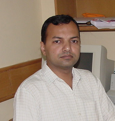 Depicted person: Manindra Agrawal – computer scientist